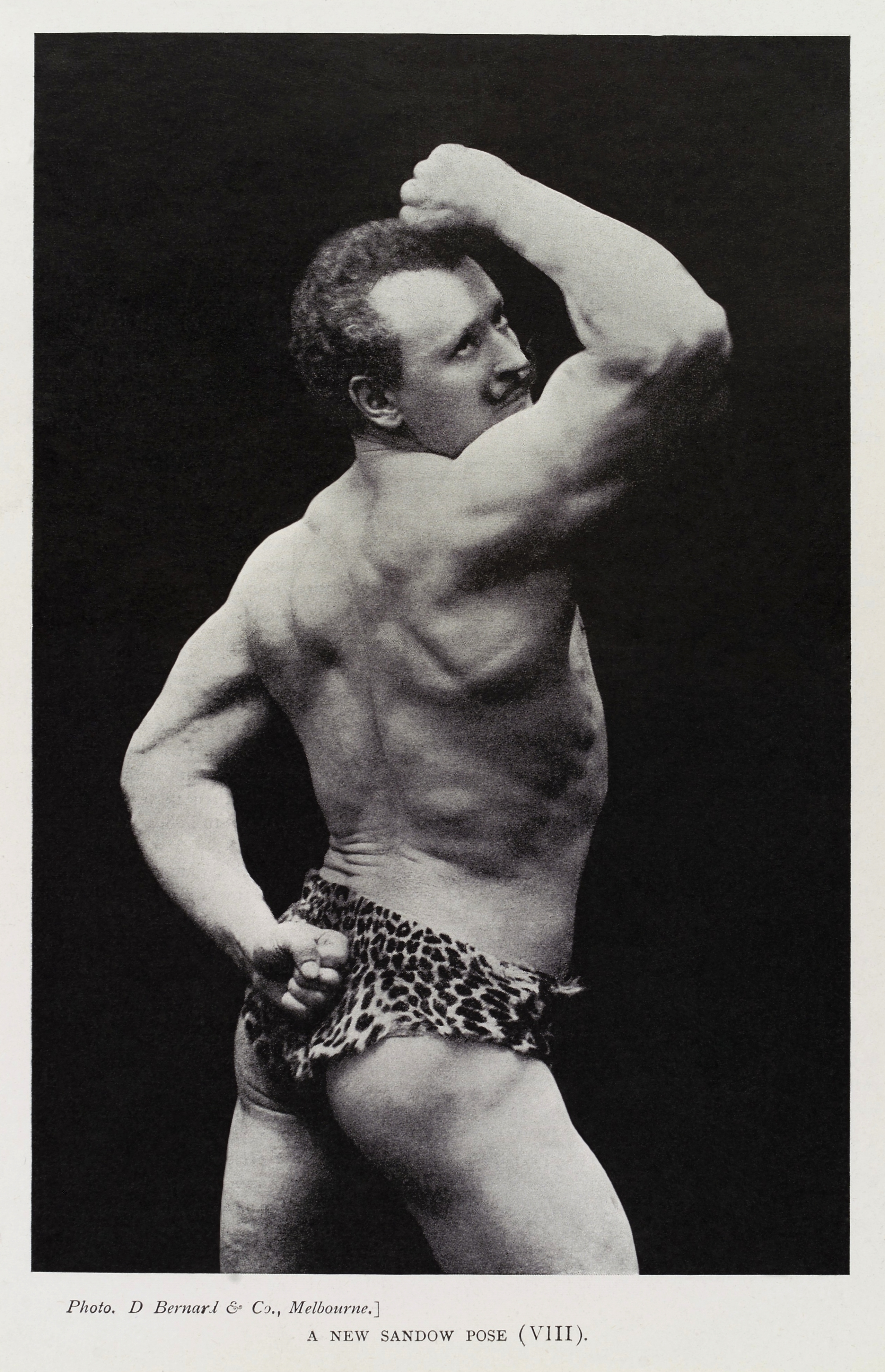 Photograph of Eugen Sandow wearing leopard-skin trunks. Entitled "A New Sandow Pose (VIII)." Photo taken from Sandow's Magazine of Physical Culture. General Collections Keywords: Athlete; Physical Education and Training; Athletes; Exercise; Physical Education